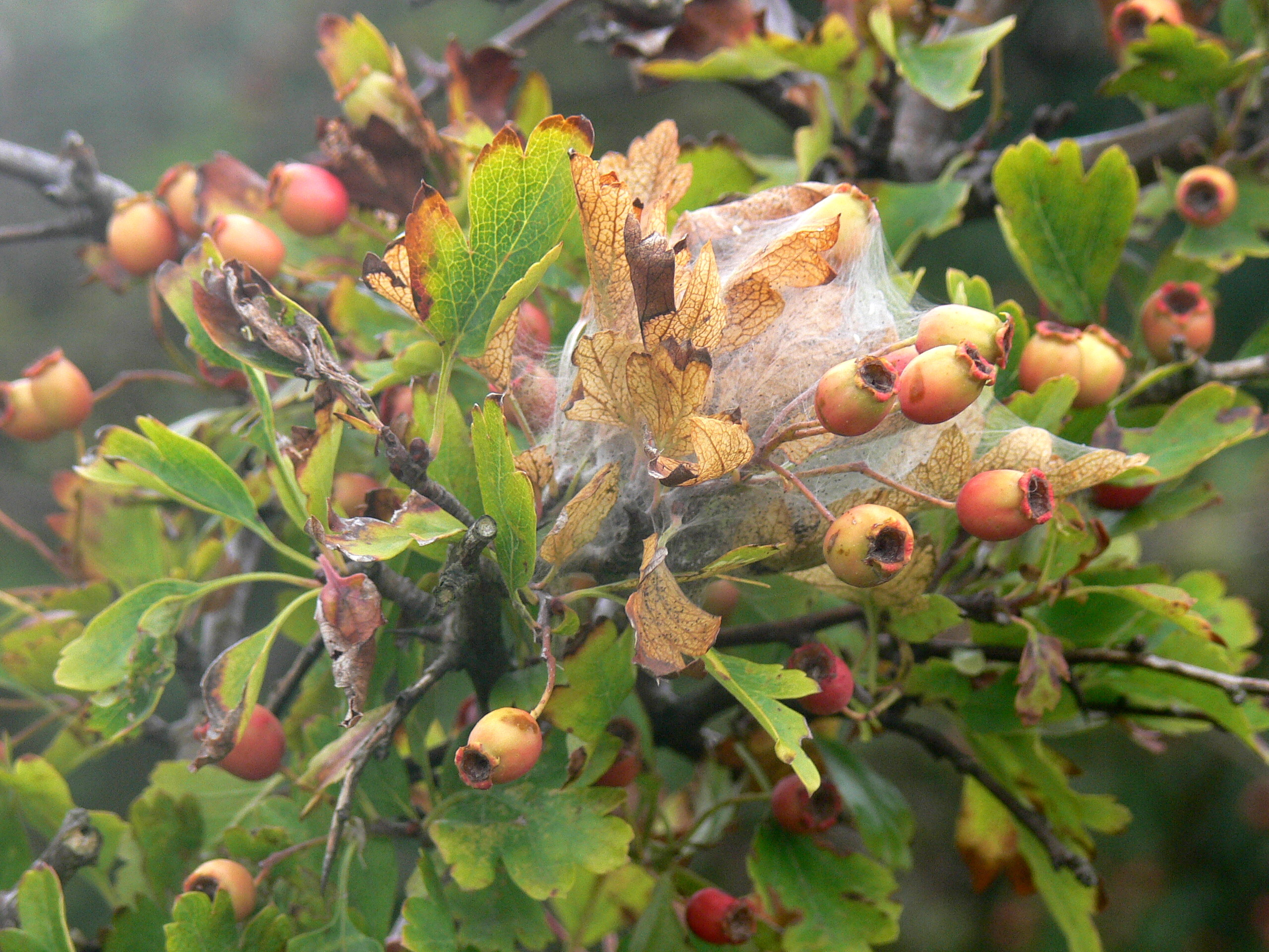 Texel. Sea buckthorn in the dunes near Ecomare at De Koog.